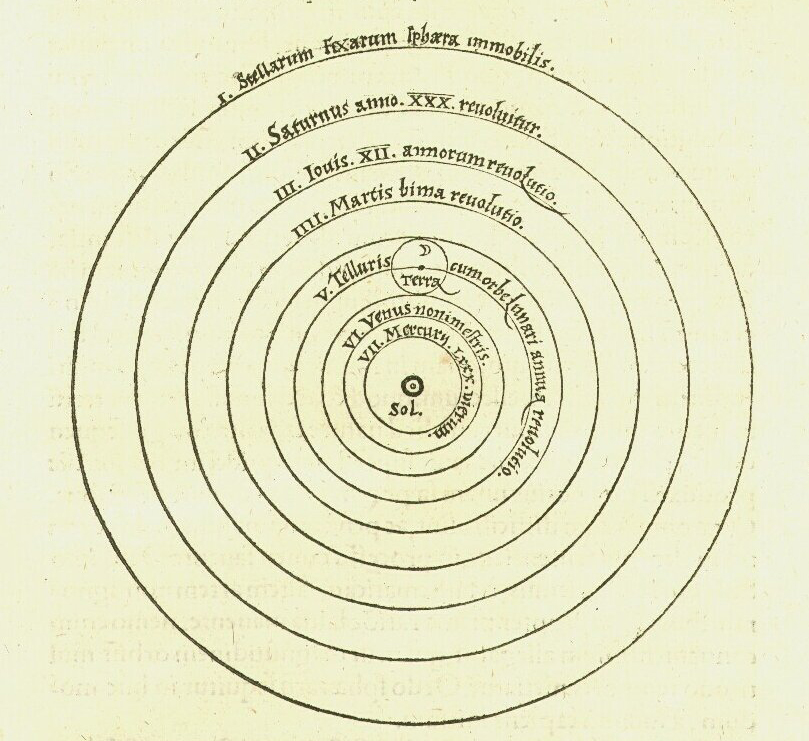 Image of heliocentric model from Nicolaus Copernicus' "De revolutionibus orbium coelestium".